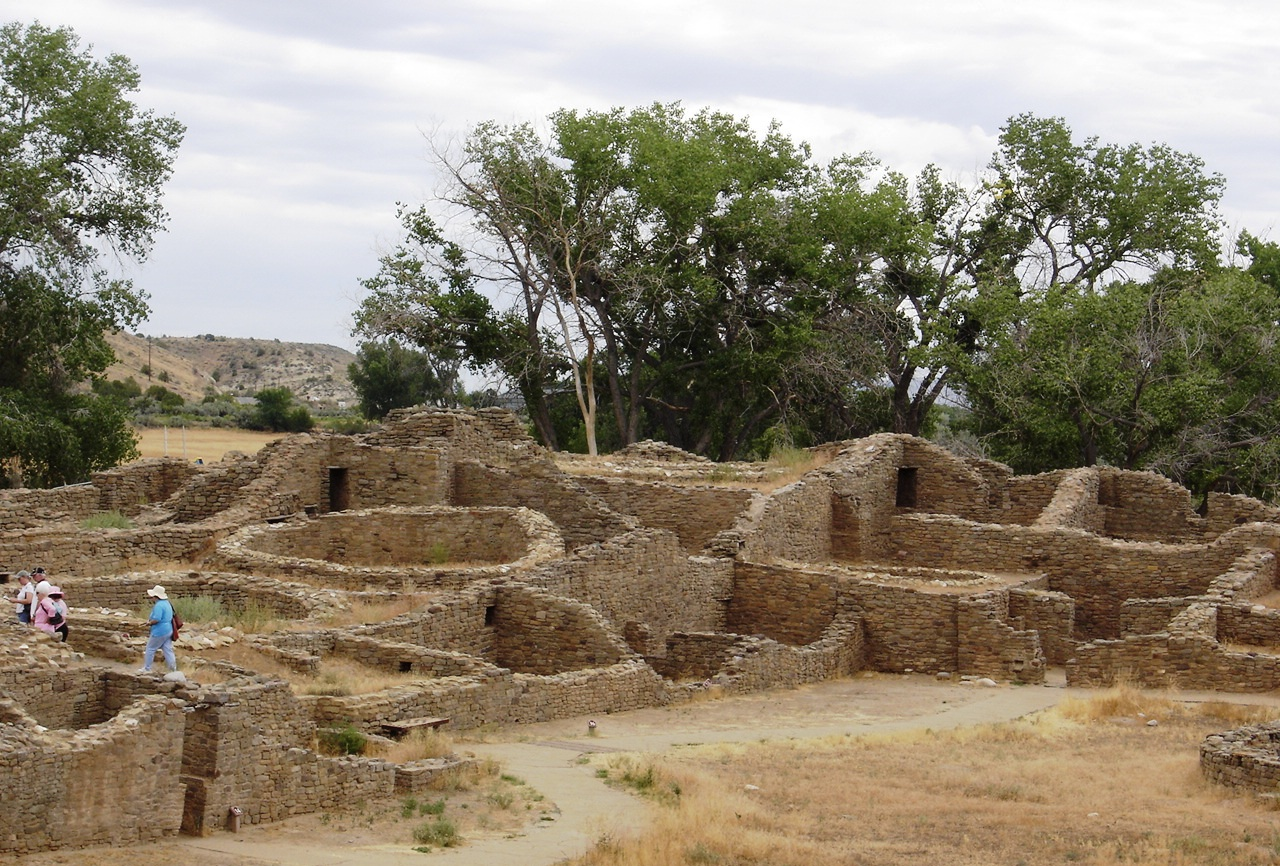 Aztec Ruins National Monument, New Mexico, USA